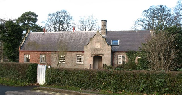 Former village school, Little Ribston The former school stands close to the entrance to Ribston Hall and one would assume that it was built by the estate. No date is visible, but the building [except the left end] appears to be 19th century in a Tudor style. The left side of the building is the village hall.